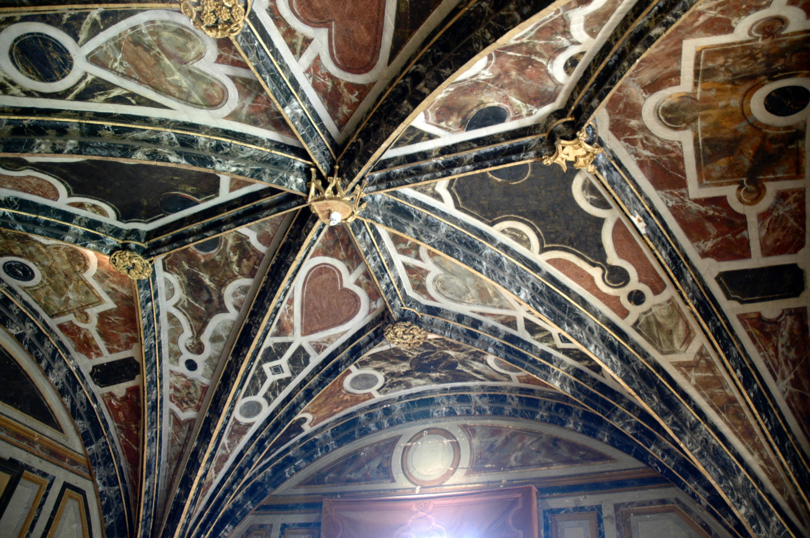 The Château d'Ussé, ceiling with Trompe-l'œil painting